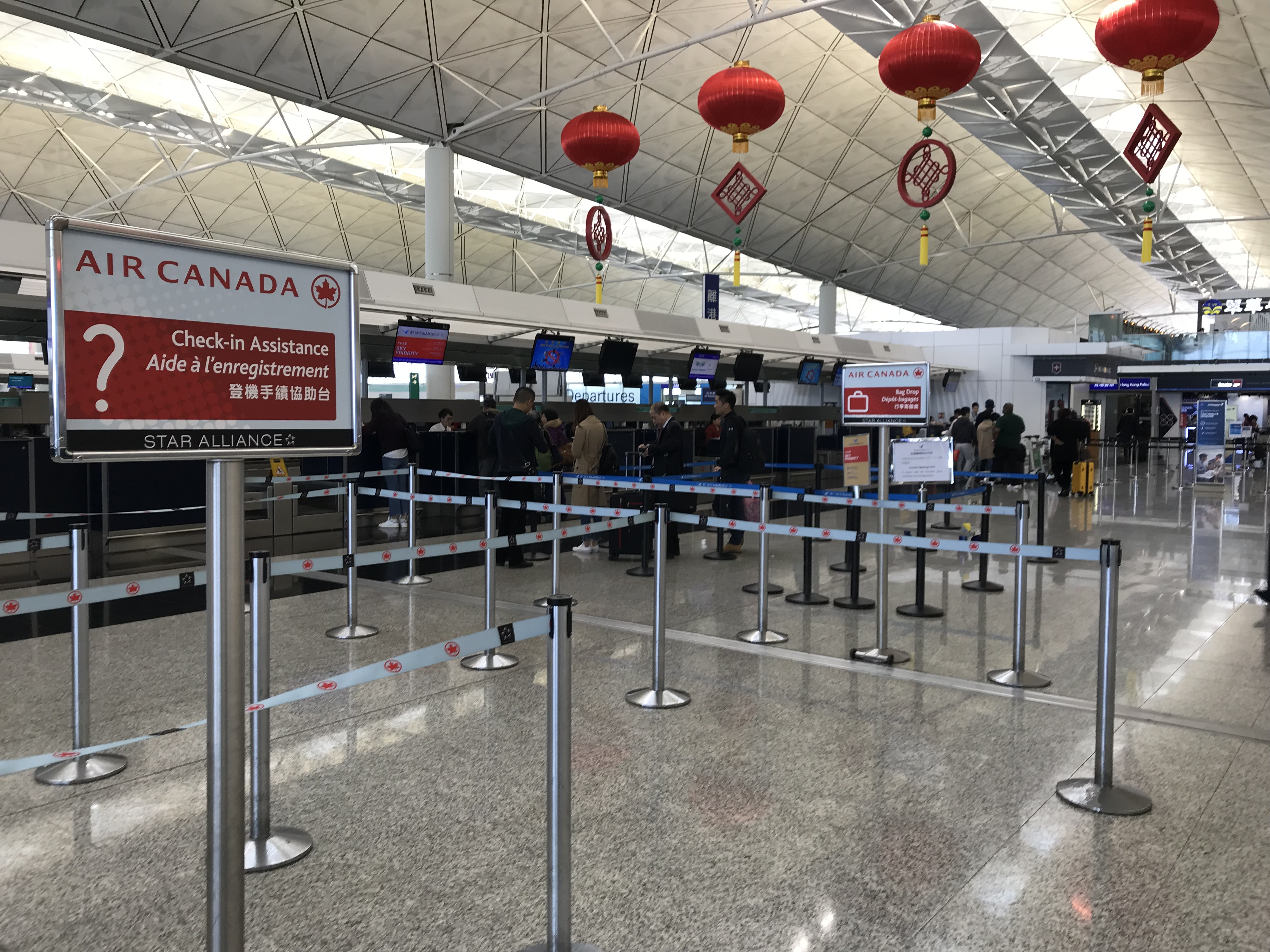 201901 Air Canada Check-in Counter at HKG